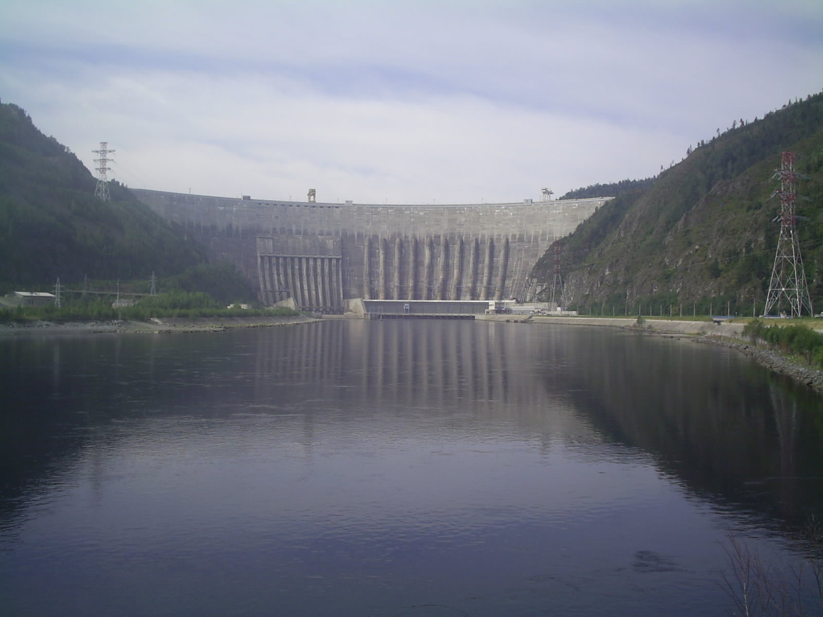 Sayano–Shushenskaya hydroelectric power station, view from the observation point, Russia.